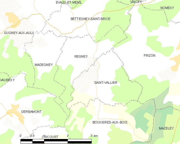 Map of French municipality Regney